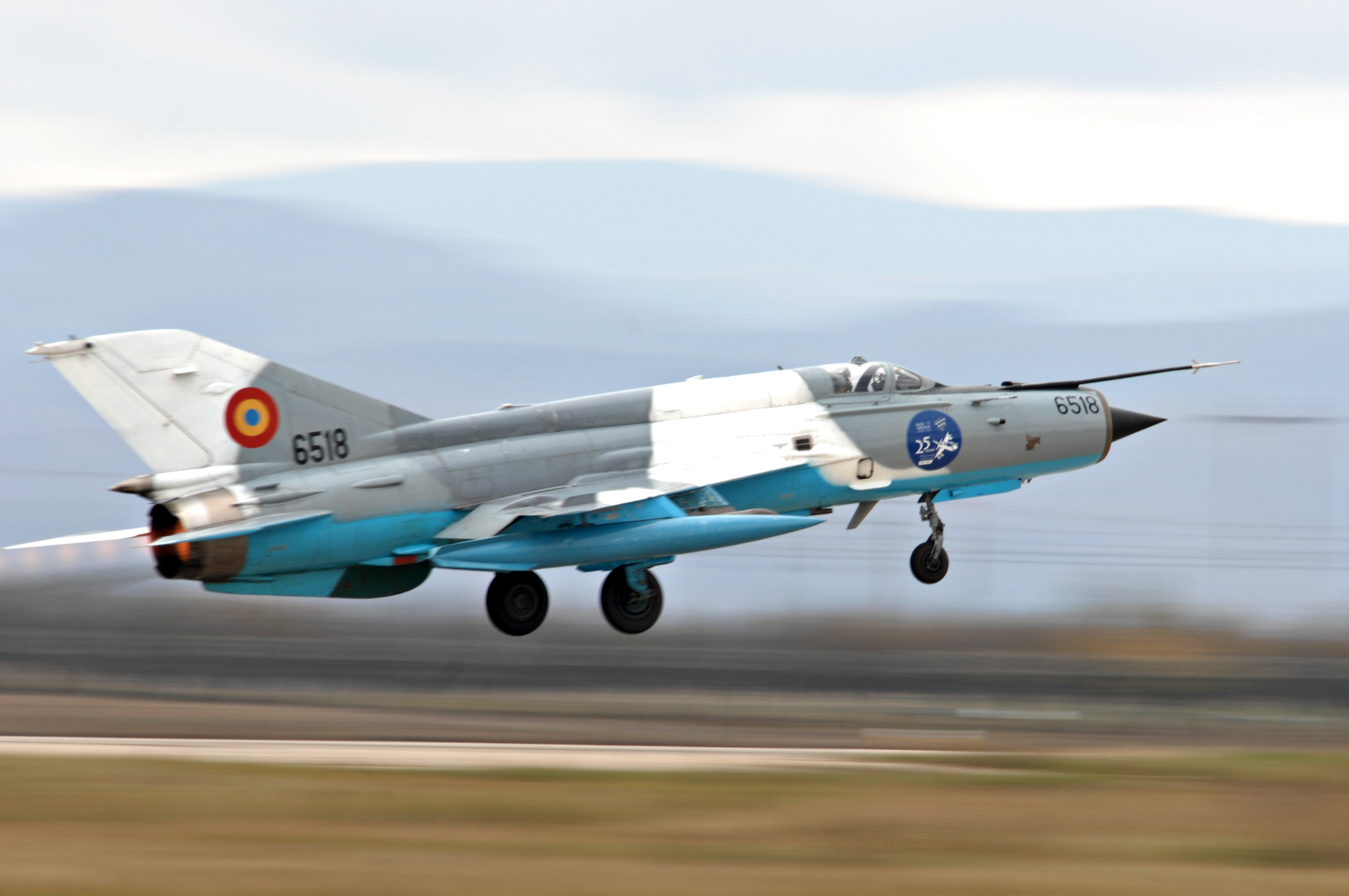 A Romanian Air Force Mikoyan-Gurevich MiG-21 LanceR takes off on the runway of the 71st Air Base Wing, at Campi Turzii (Romania), during an aerial demonstration as part of operation “Dacian Thunder 2009”, on 26 October 2009. During the operation the U.S. Air Force flew about 100 sorties; half of which were with the Romanian Air Force.